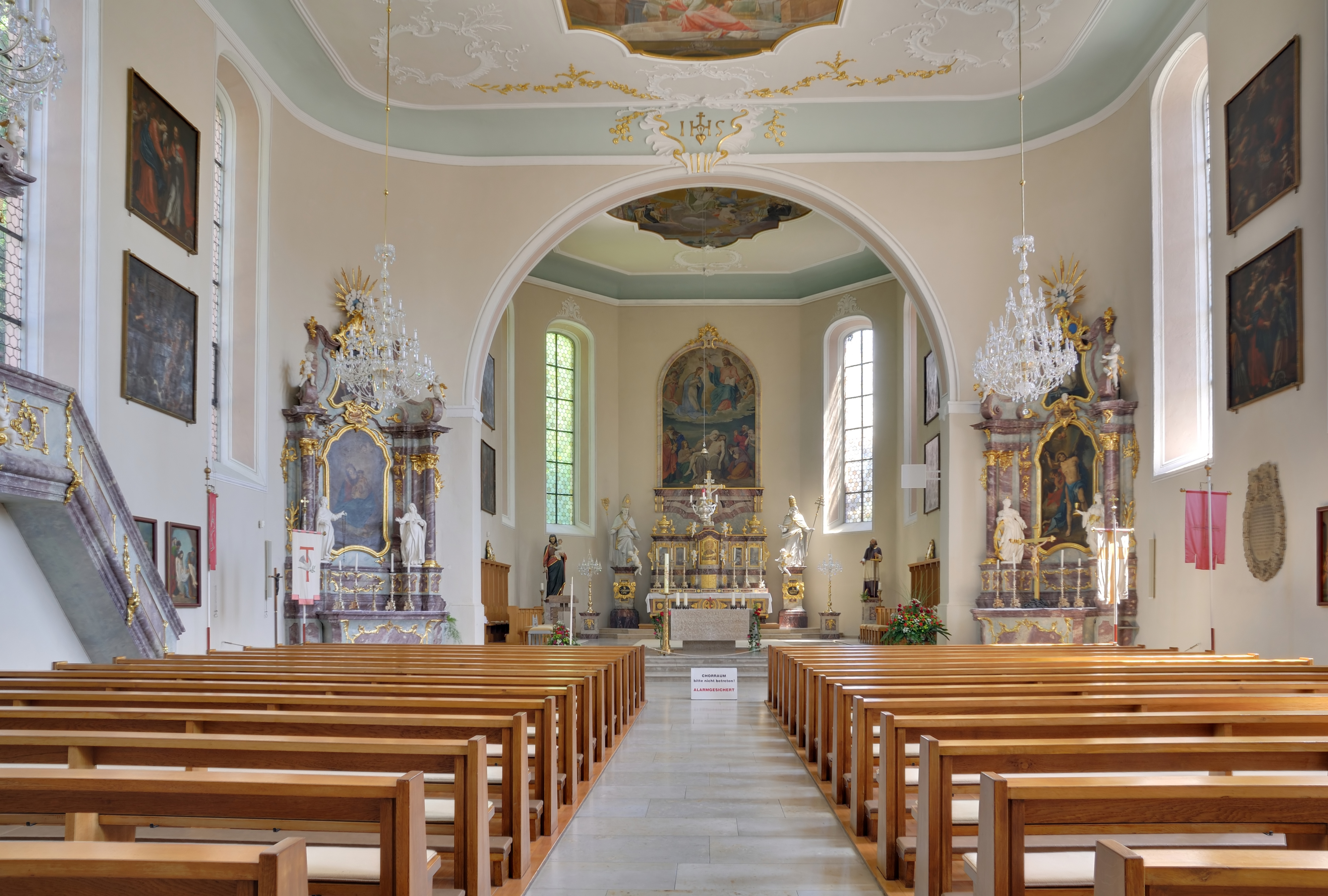 Schliengen: Saint Leodegar Church